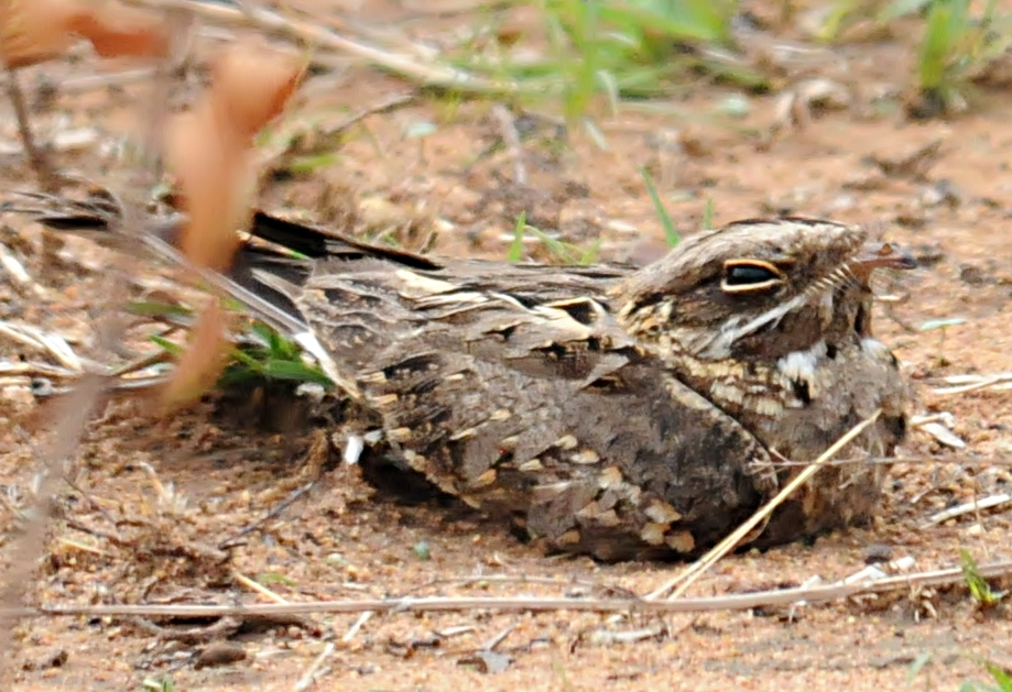 Common Indian Nightjar. Caprimulgus asiaticus. Photographed in Hyderabad.